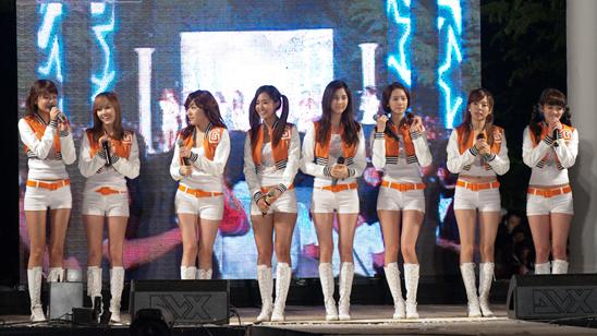 Girls' Generation in Pai Chai University.